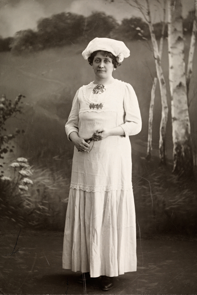 Tittel / Title: Portrett av Hulda Garborg Motiv / Motif: Kabinettkort Fotograf / Photographer: Helland & Co. (Kristiania) Eier / Owner Institution: Nasjonalbiblioteket / National Library of Norway Lenke / Link: Bildesignatur / Image Number: blds_03739